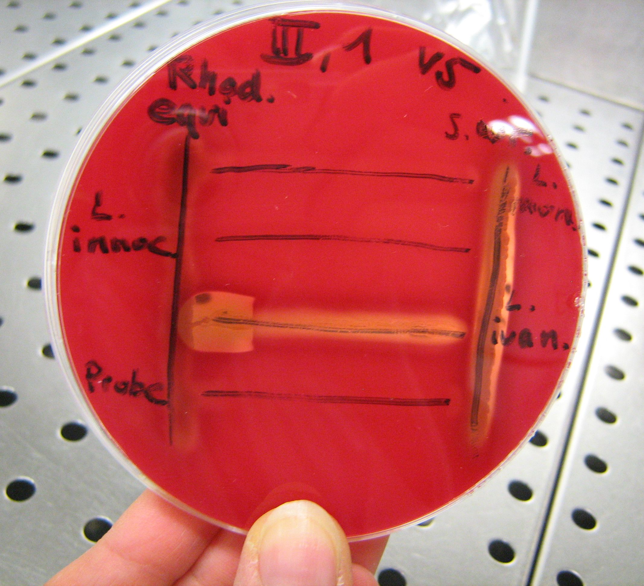 CAMP-Test for identification of Listeria monocytogenes, L. innocua und L. ivanovii on an agar plate with blood.